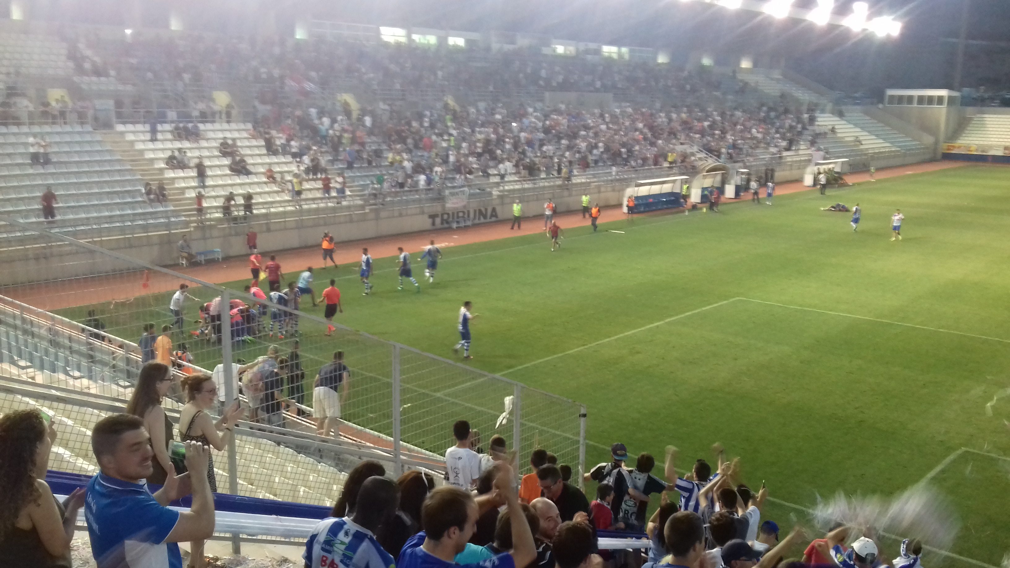 CF Lorca Deportiva - Alcobendas Sport (25-06-2017)